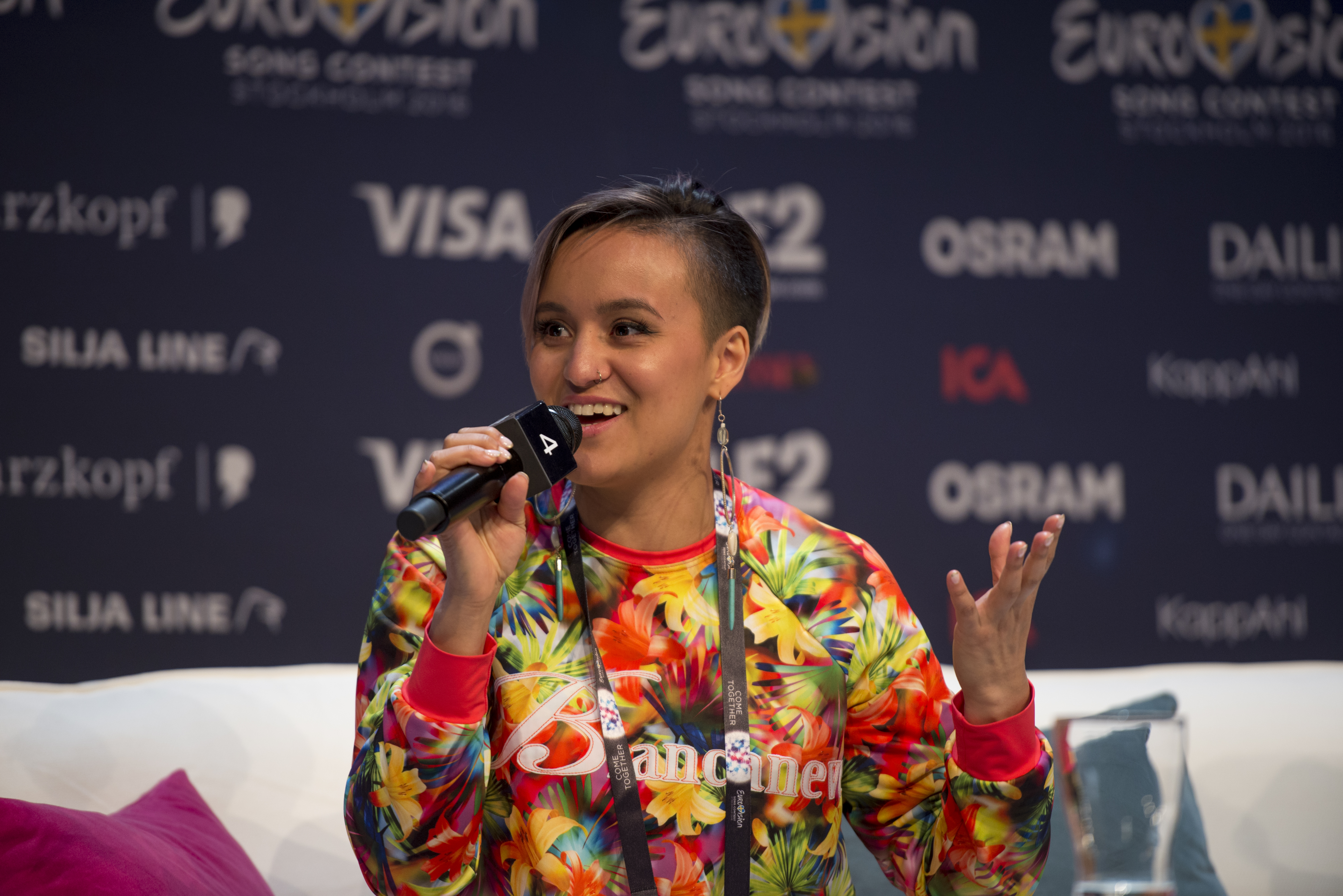 Sandhja at a Meet & Greet during the Eurovision Song Contest 2016 in Stockholm. (Help translate this text)